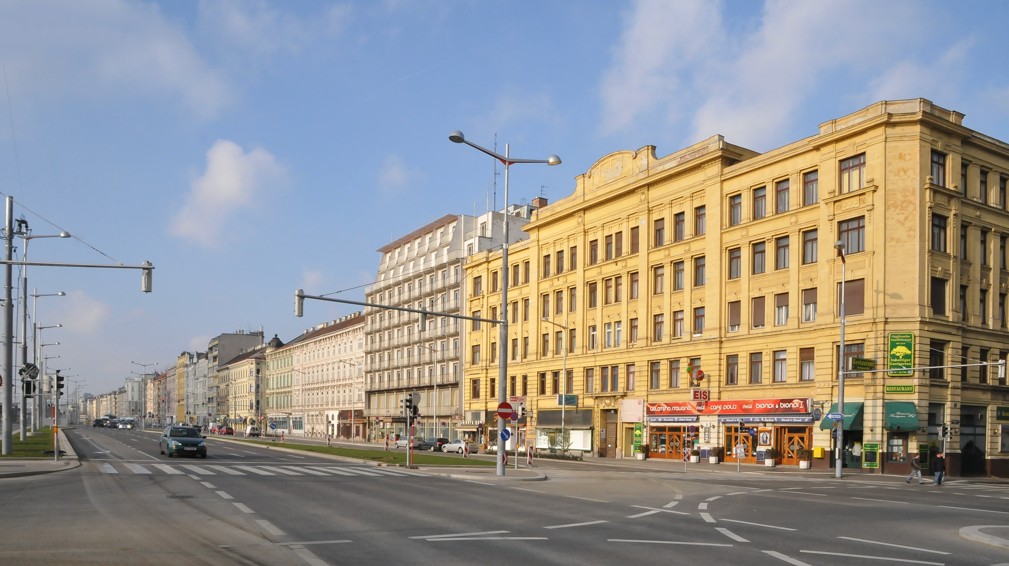 Row of houses at the corner of Wiedner Gürtel and Mommsengasse, viewed from the former tramway-station Südbahnhof - now Quartier Belvedere - at Vienna, Austria.